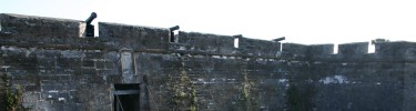 Canon pointing out from embrasures in the curtain wall at the Castillo de San Marcos